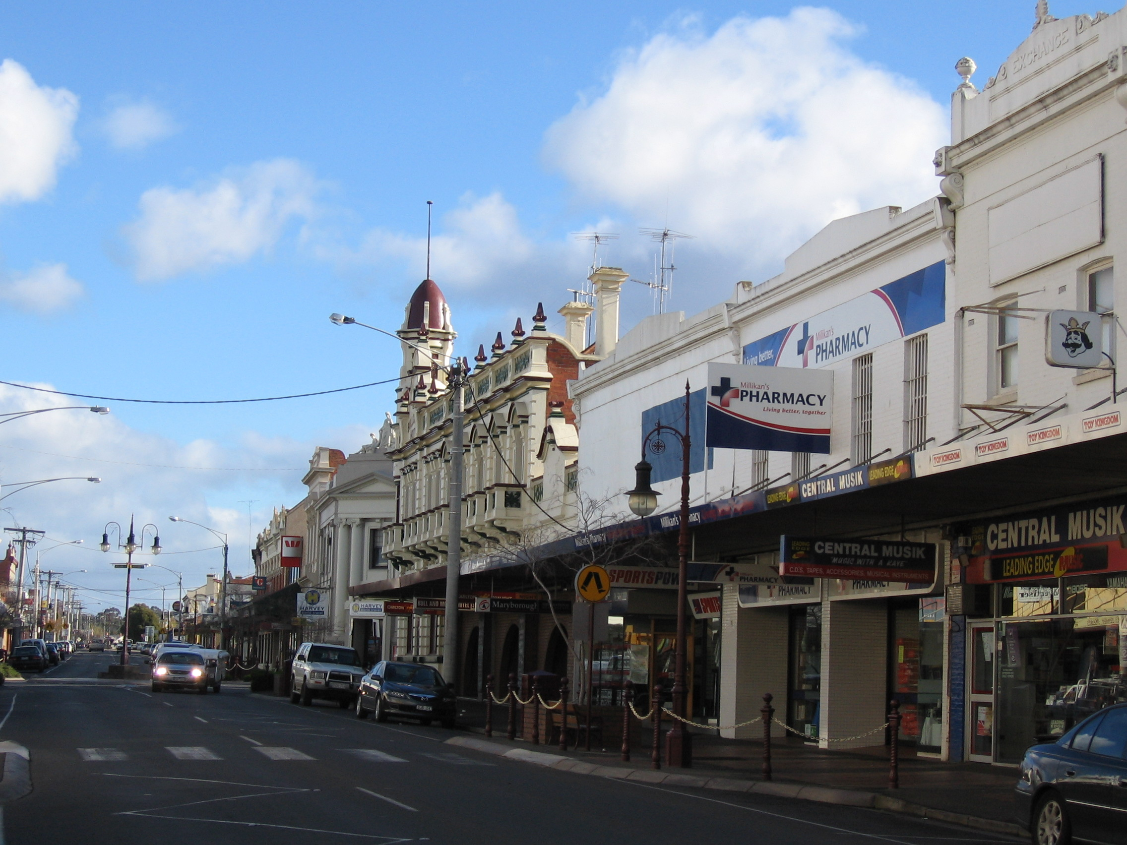 The main street of Maryborough, Victoria